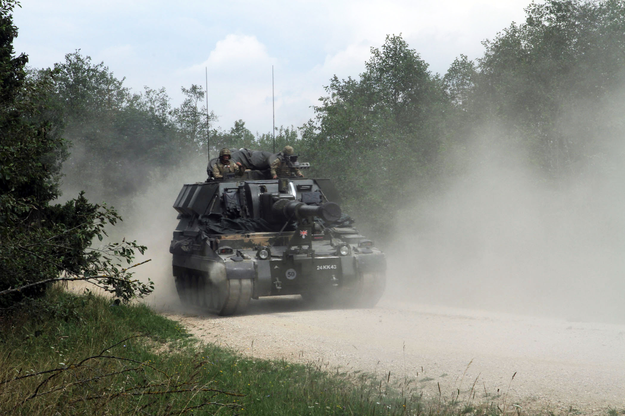 At the end of a two-week exercise, British soldiers of the 26th Royal Regiment Artillery move out of the training area and prepare the guns for railcar movement back to Mansergh Barracks, Gutersloh, Germany. The artillery regiment spent two-weeks performing day and night live-fire exercises at the 7th Army Joint Multinational Training Command's Grafenwoehr Training Area with six 45-ton AS-90 self-propelled howitzers. (U.S. Army photo by Sgt. Christina M. Dion/Released)